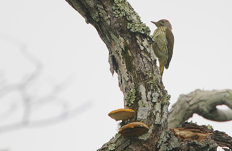 This is a male. Image taken in Arabuko-Sokoke Forest.